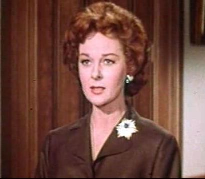 Cropped screenshot of Susan Hayward from the trailer for the film Ada